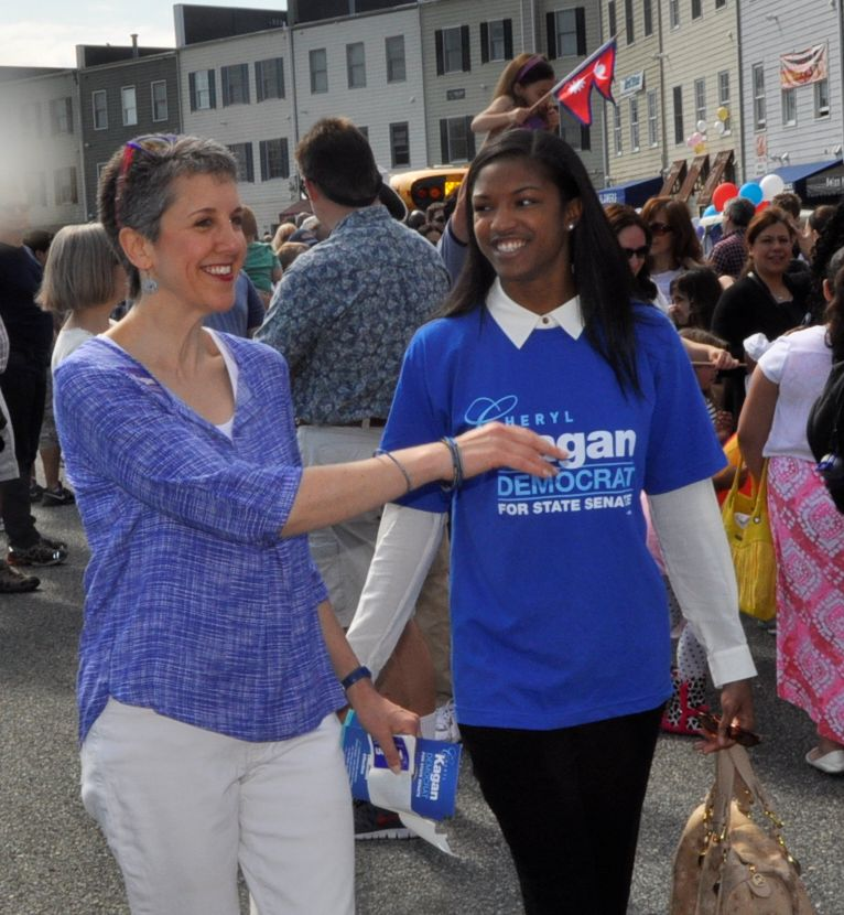 2014-05-03 Kentlands Parade 093 Cheryl Kagan